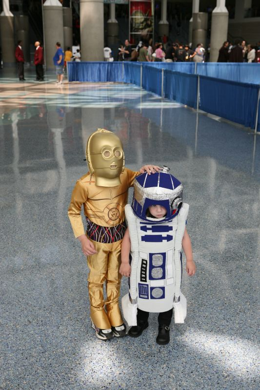 Photo by Scott Ruether. Read more at the Official Celebration IV blog. Costumes at Star Wars Celebration IV in 2007 at the Los Angeles Convention Center in Los Angeles.